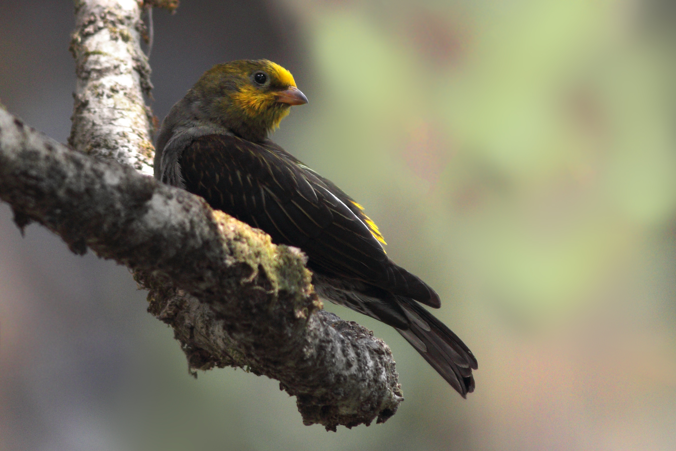 Yellow-rumped Honeyguide Pabyuk-Naitam Sikkim March 2019.